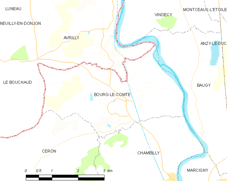 Map of French municipality